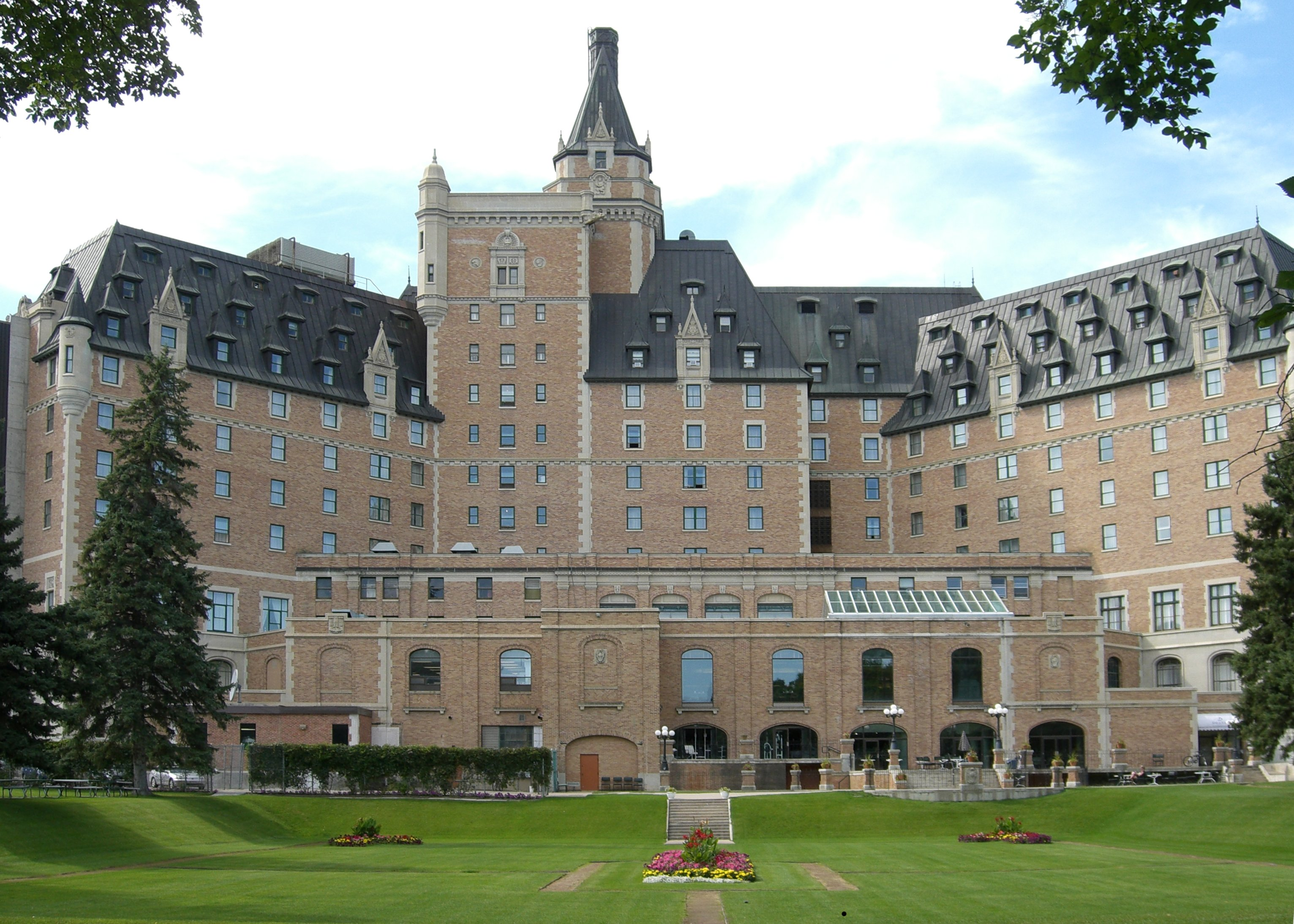 Rear view of Hotel Bessborough with horizontal error and perspective corrected